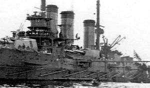 Closeup photograph clip showing port 10-inch gun turret on IJN battleship Aki.